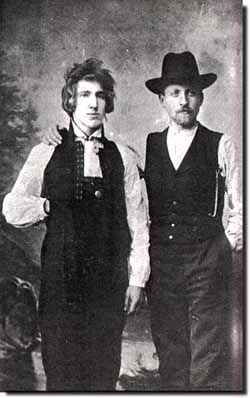 Nikolai Astrup (1880–1928), With his father or a friend (see talk page).